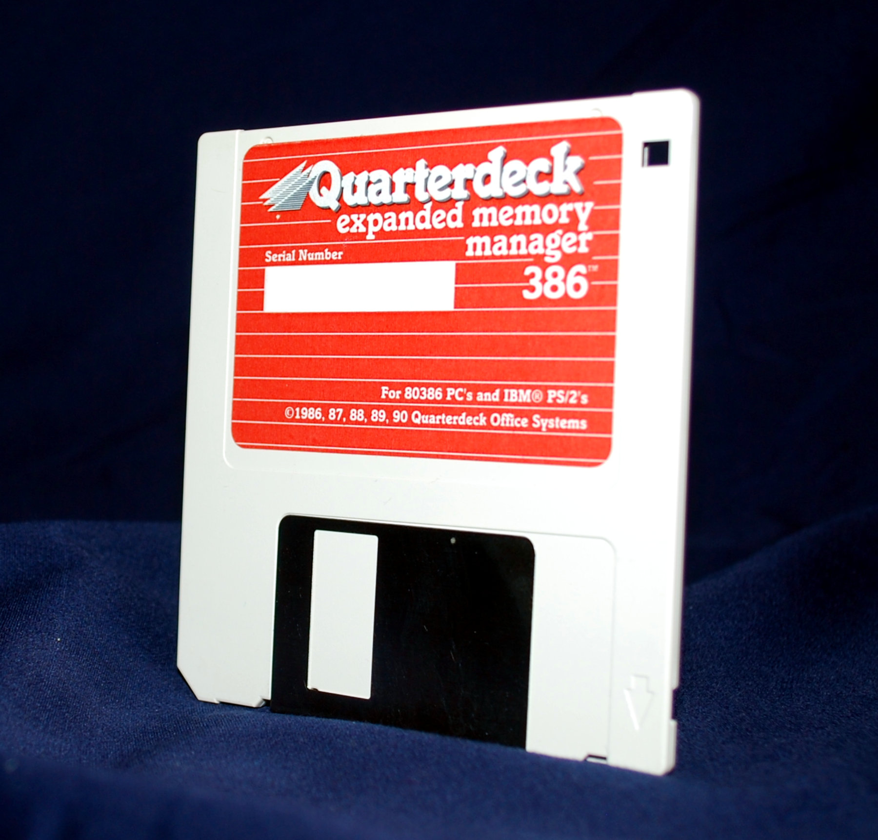 Quarterdeck expanded memory manager (QEMM) for 80386 and IBM PS/2 personal computer systems